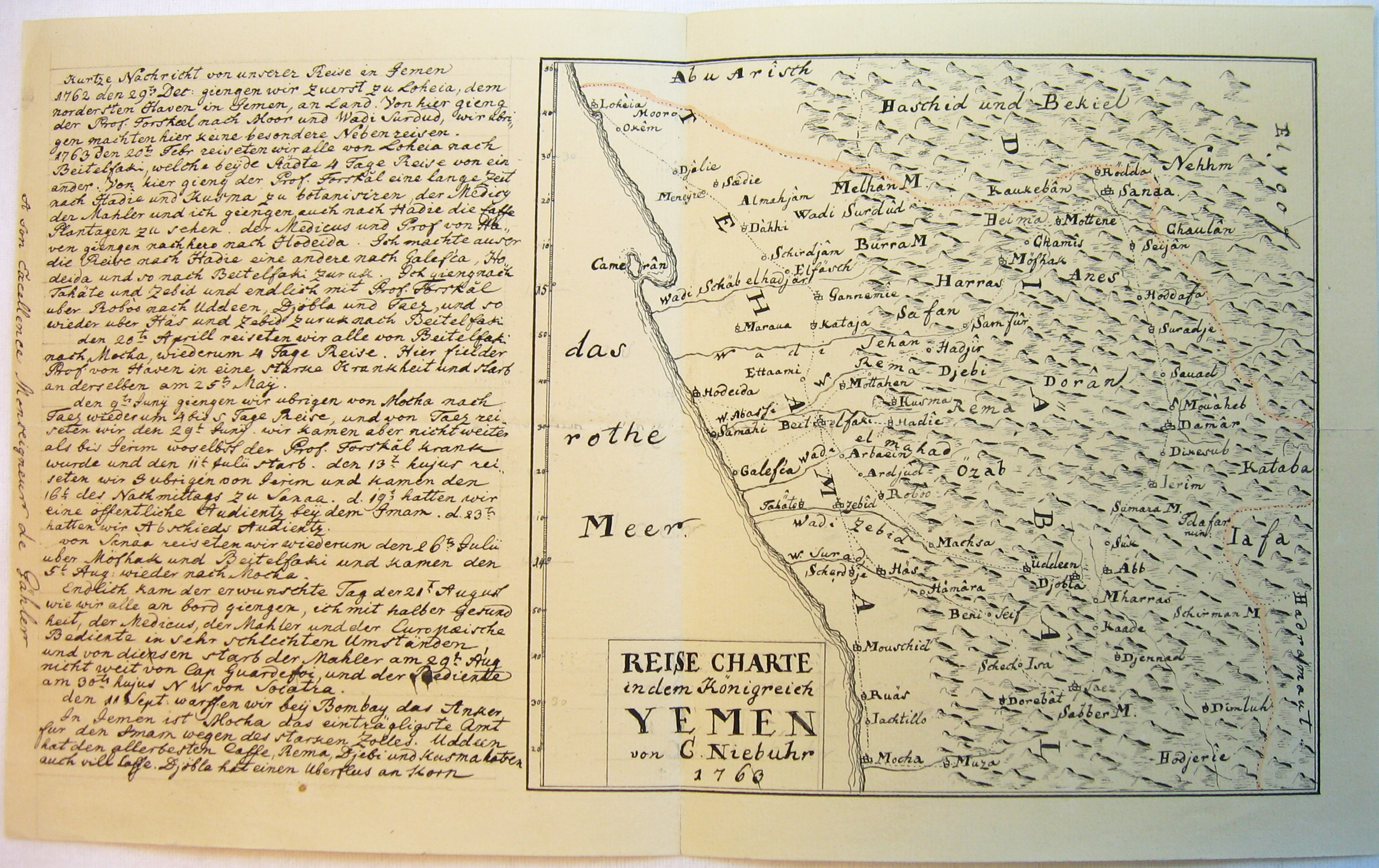 Map of Yemen by Carsten Niebuhr